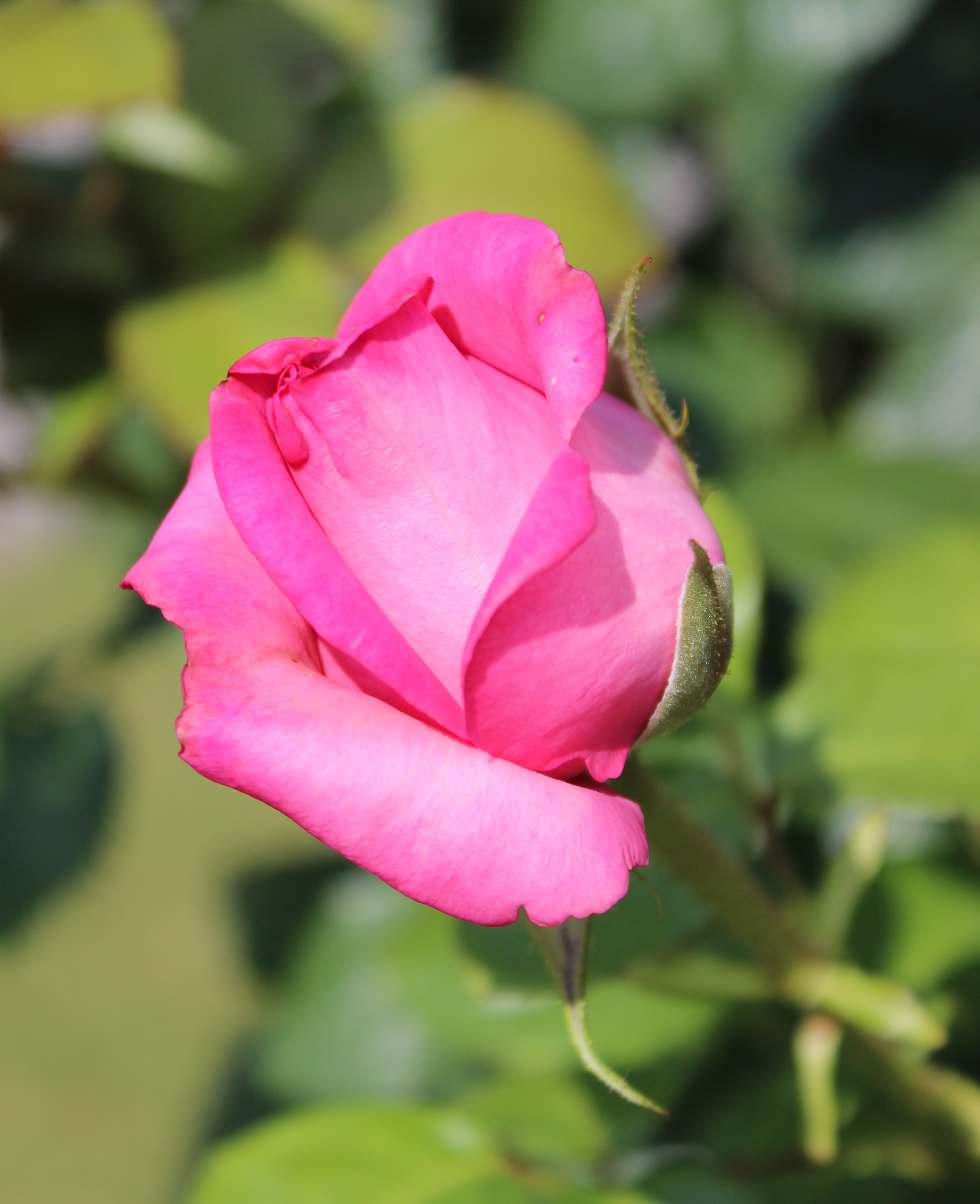 Rosa 'Marquesa de Urquijo' in the Volksgarten in Vienna. Identified by sign.